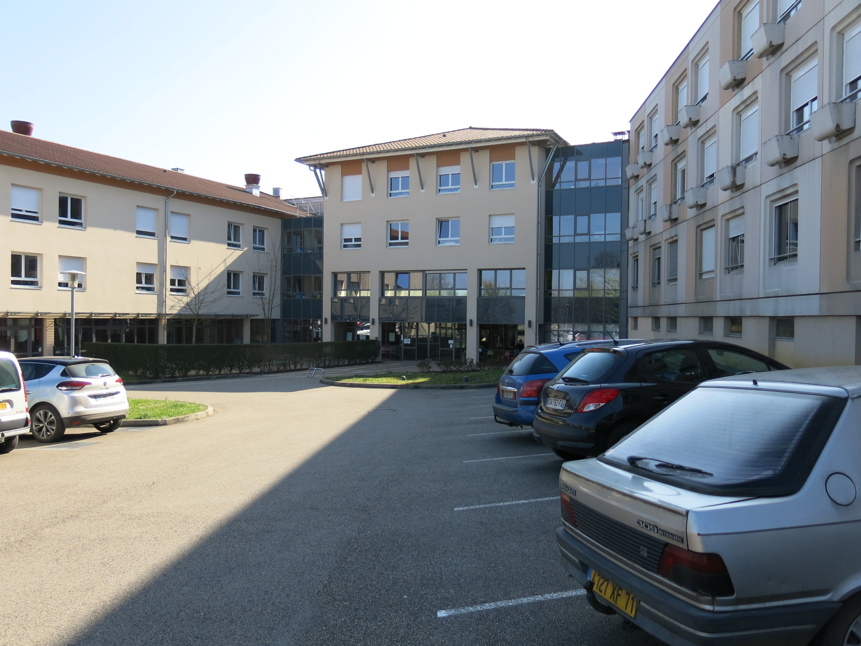 Entrance of the hospital of Belnay. Tournus (Saône-et-Loire, France).